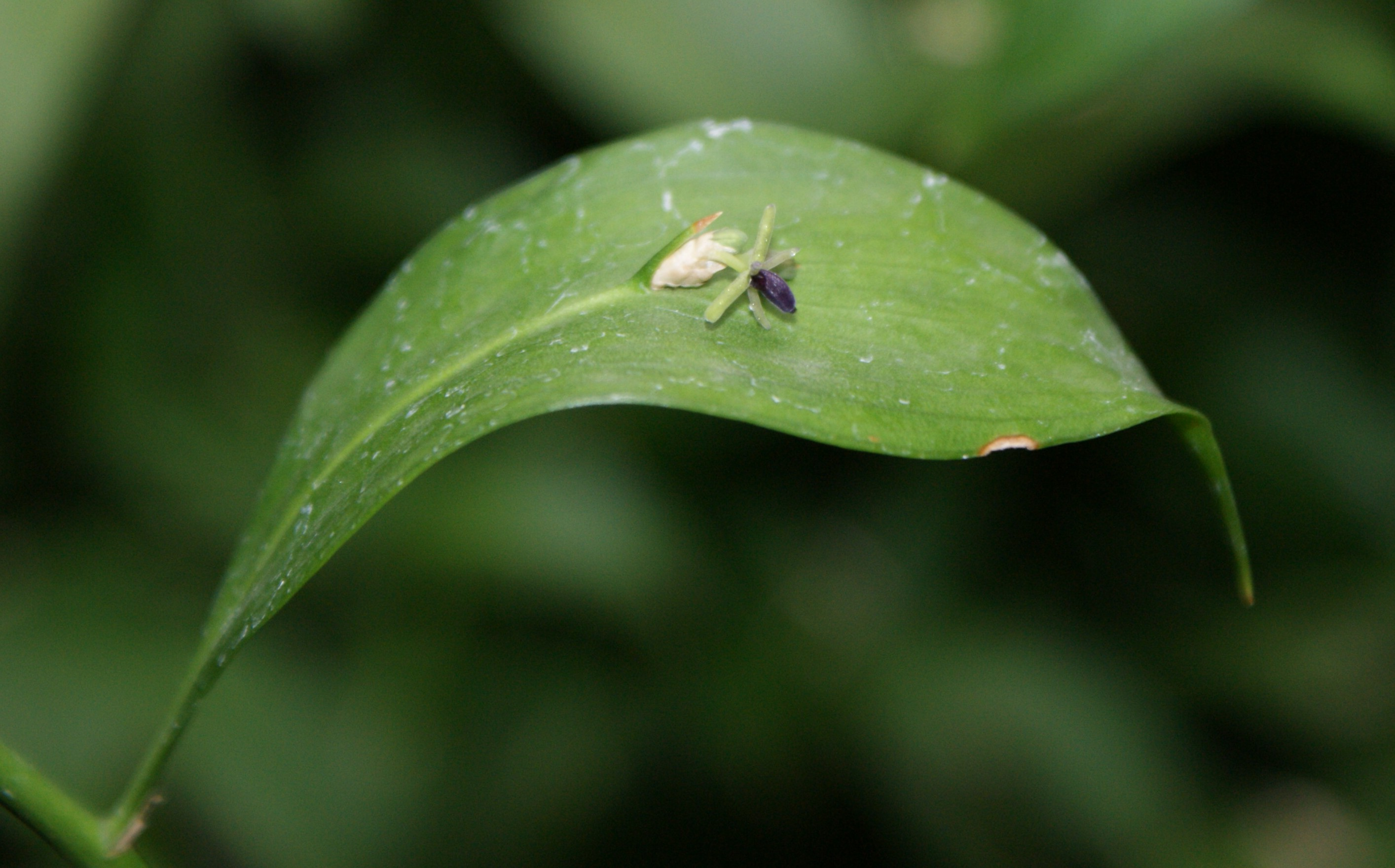 Ruscus hypoglossum